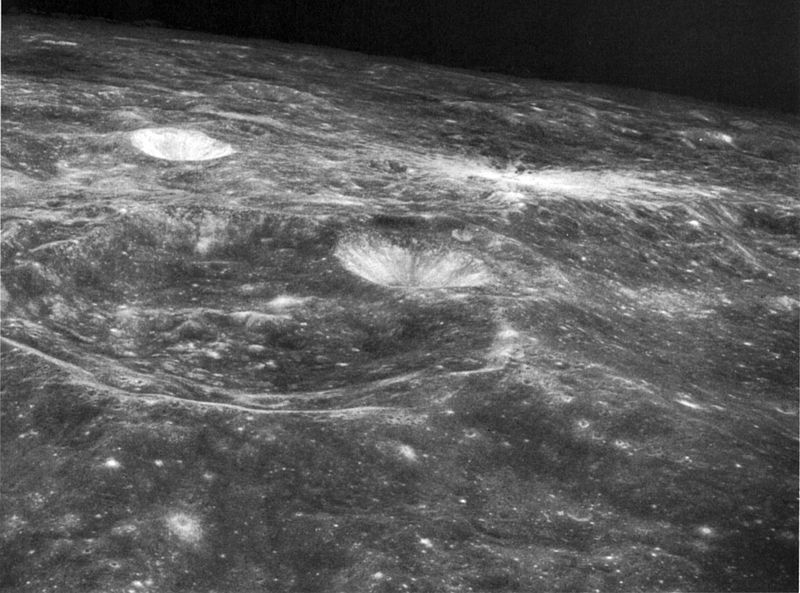 Satellite crater Saenger P , Apollo-10 image AS10-29-4224 Image Collection: 70mm Hasselblad Mission: 10 Magazine: 29 Magazine Letter: P Latitude / Longitude: 3.5° N / 100° E Film Type: 3400 Film Width: 70 mm Film Color: black & white Feature(s): SAENGER, WEST OF